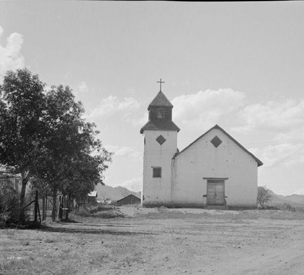 Santa Gertrudis de Tubac (Church), Tubac, Santa Cruz County, AZ (currently St. Ann's Church [1] Historic American Buildings Survey EAST ELEVATION